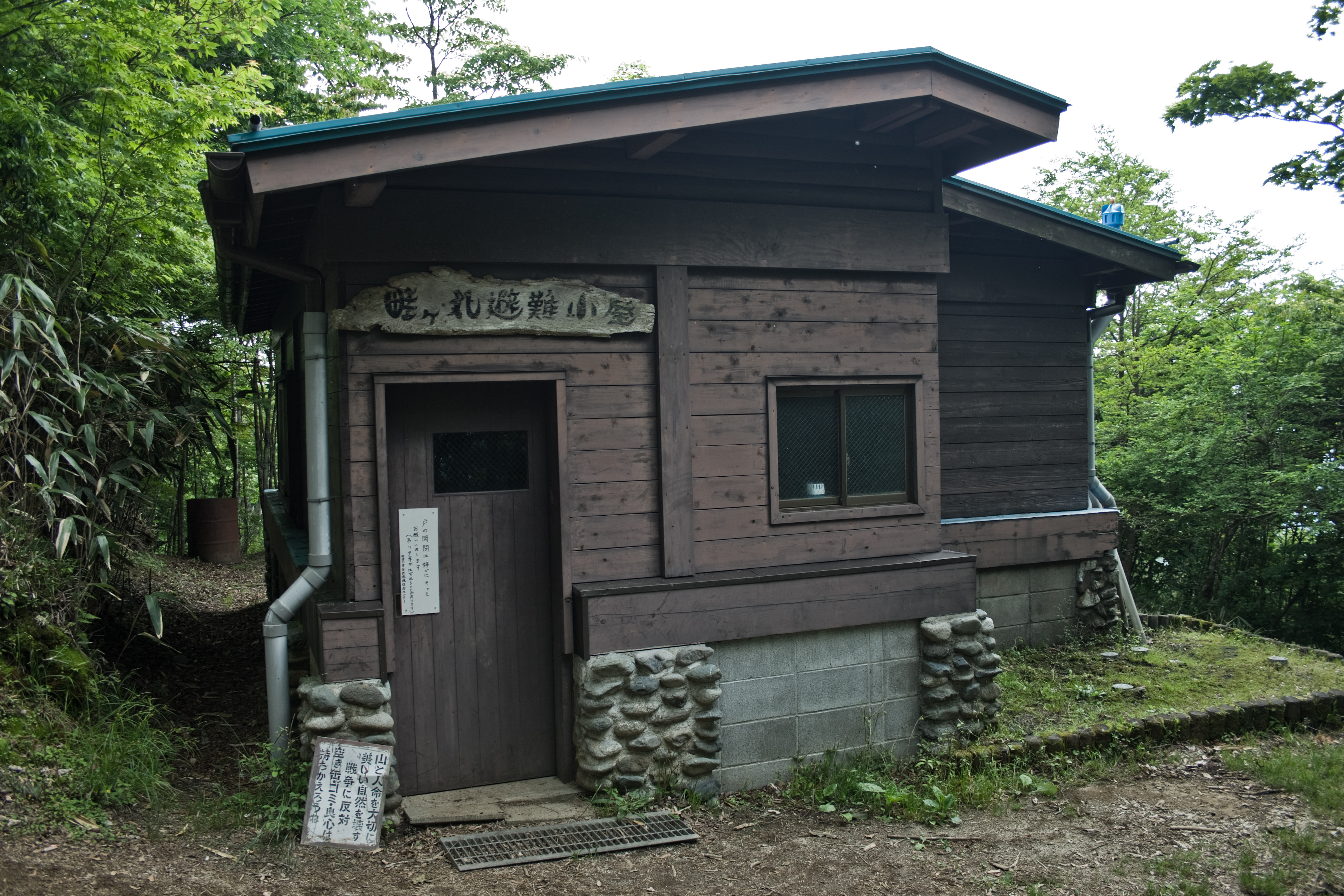 Azegamaru hinangoya ("Azegamaru shelter hut") in the Tanzawa Mountains, Japan